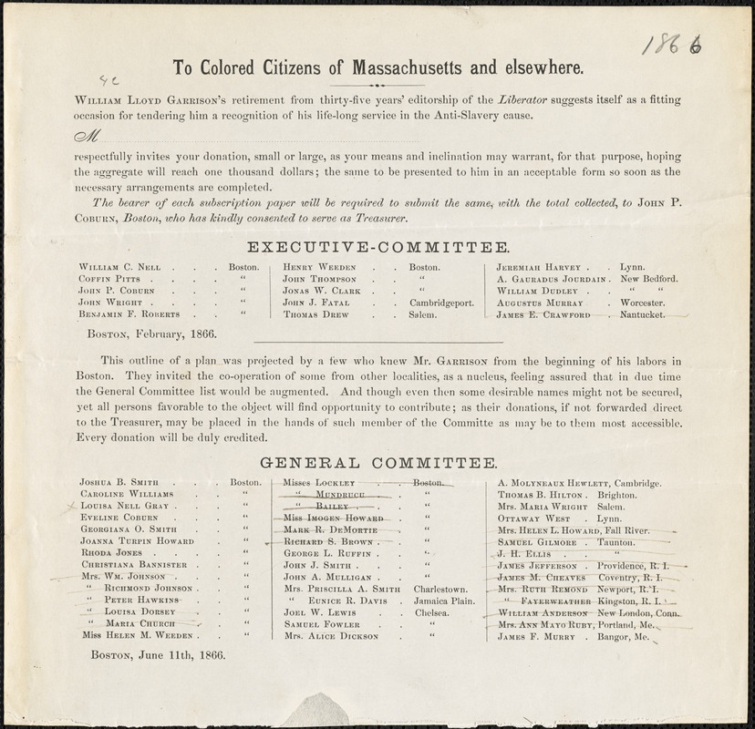 This image includes an advertisement for the colored citizens of Massachusetts and other parts of the United States that encourages people to donate money to help William Lloyd Garrison be financially stable after retiring.